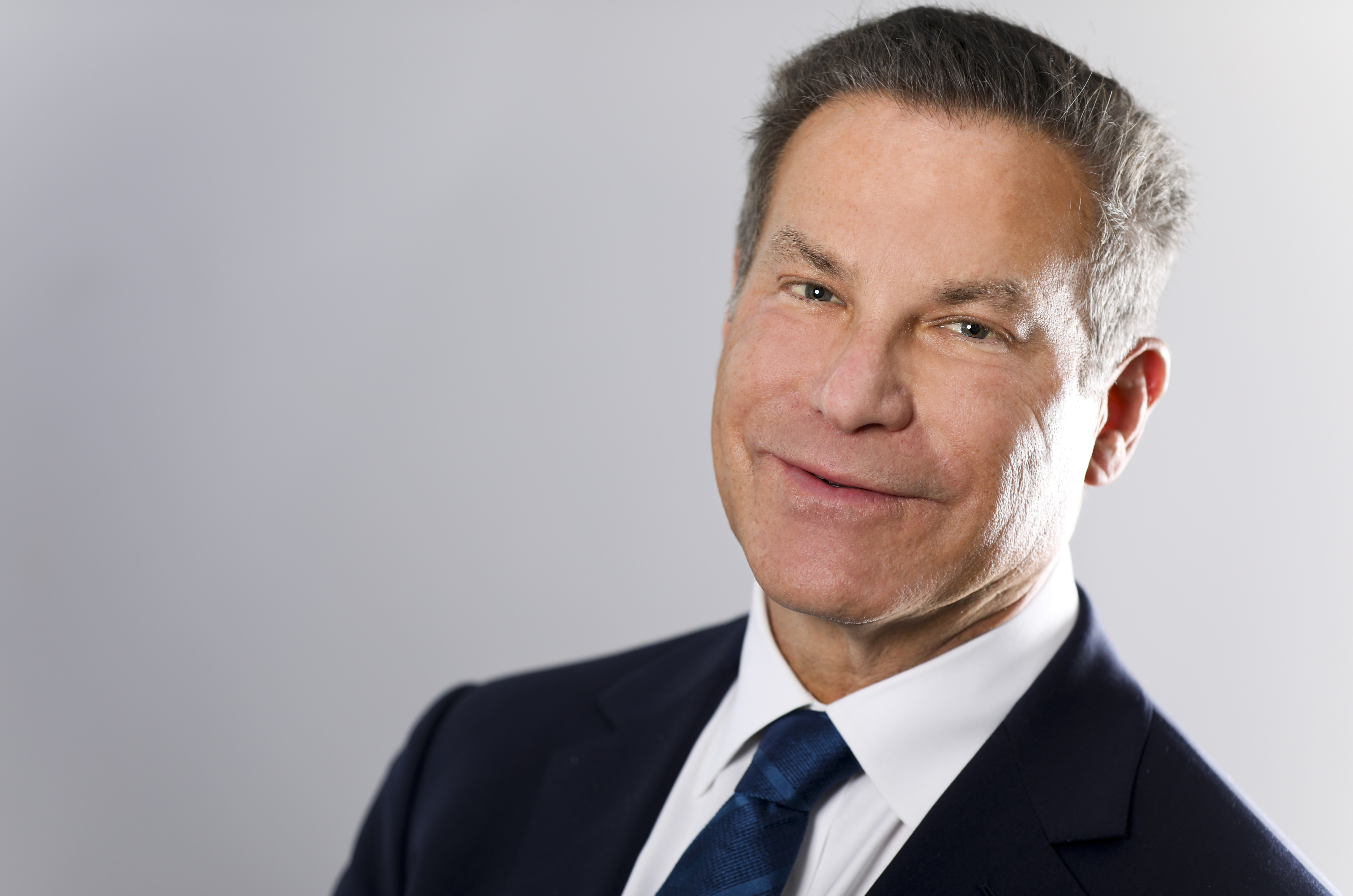 Jonah Shacknai is the CEO of Illustris Pharmaceuticals, Executive Chairman of DermaForce Partners and President of MaxInMotion